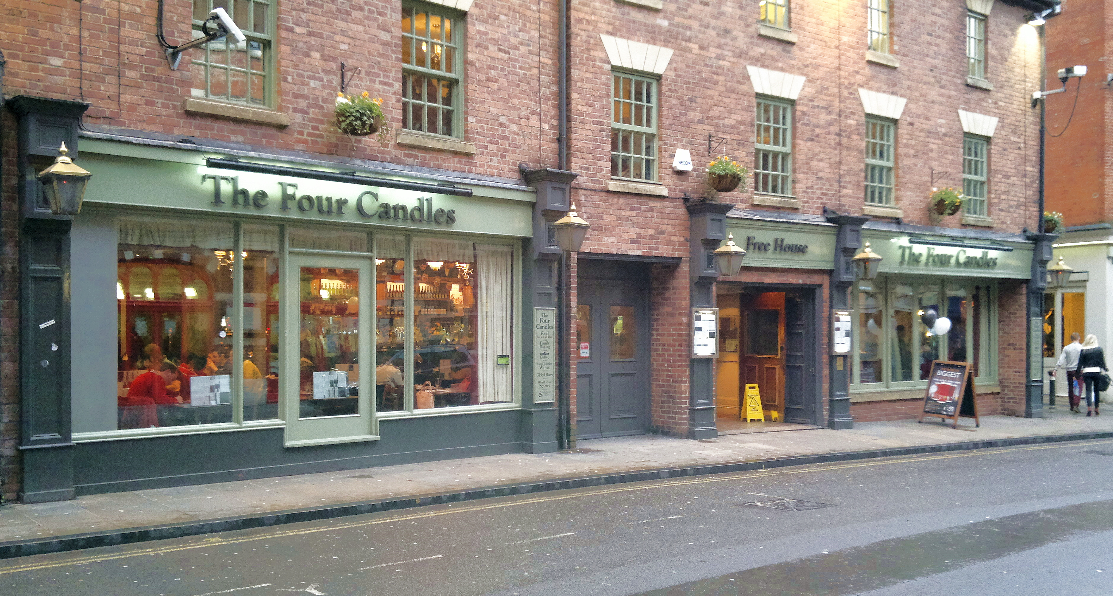 The Four Candles public house, 51 George Street, Oxford, England